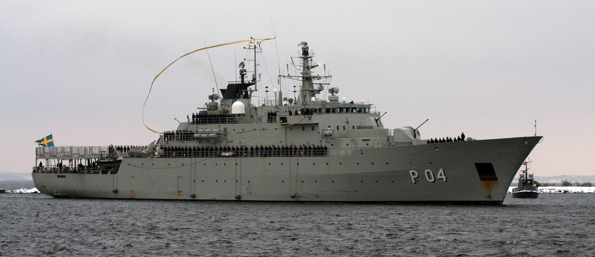 HMS Carlskrona returns from mission EU Navfor ME02